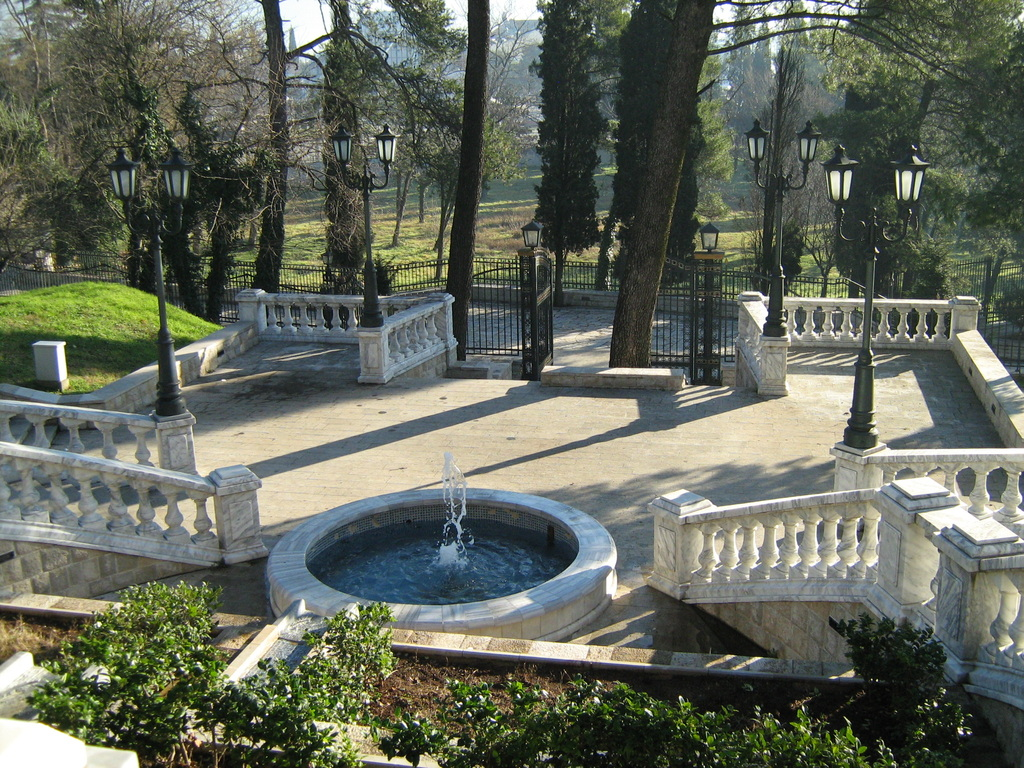 Royal garden around the former winter royal palace in Podgorica - staircase, fountain and gate at the end of Milena's promenade.